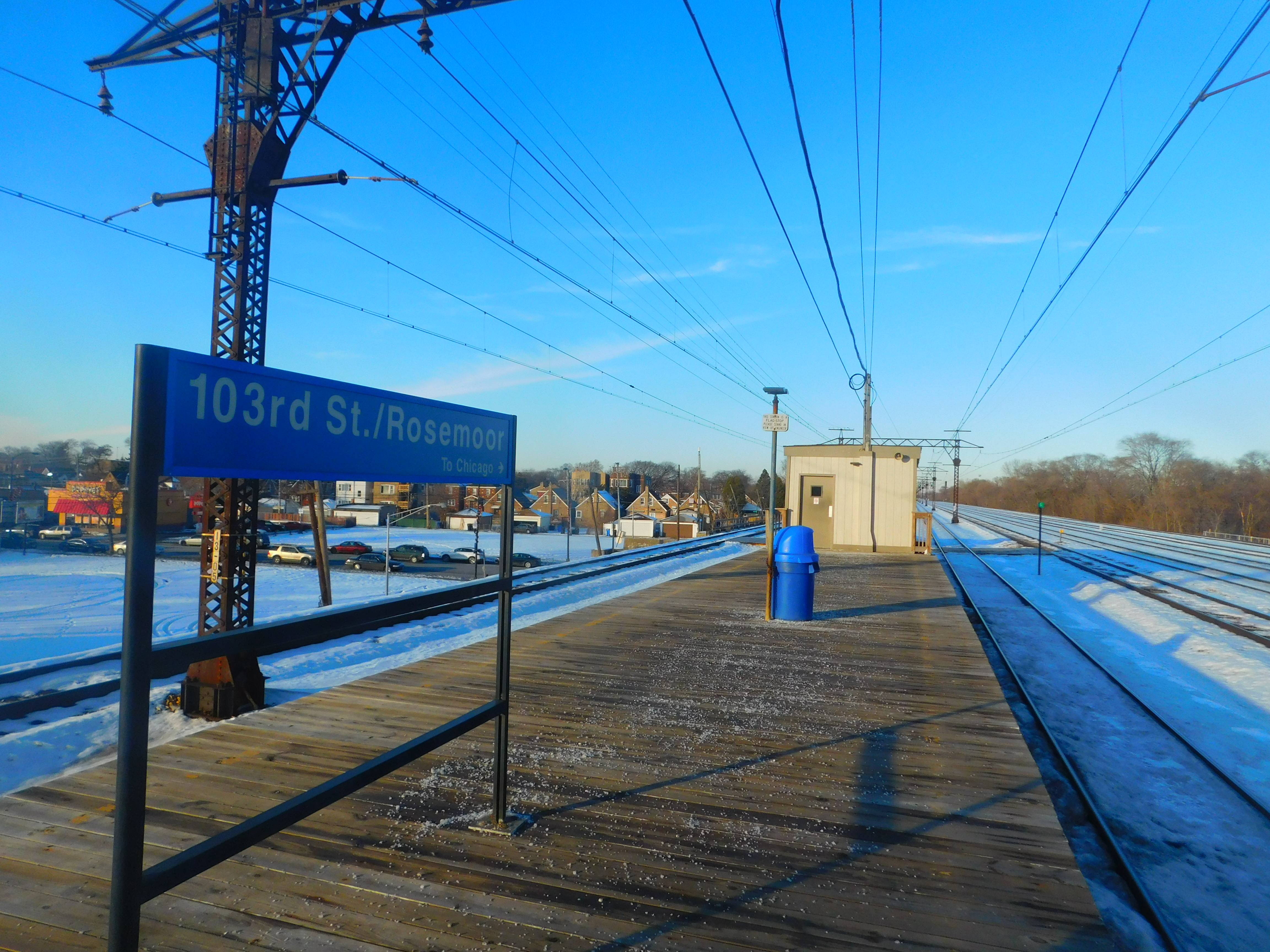 The 103rd Street (Rosemoor) station of Metra in December 2016.